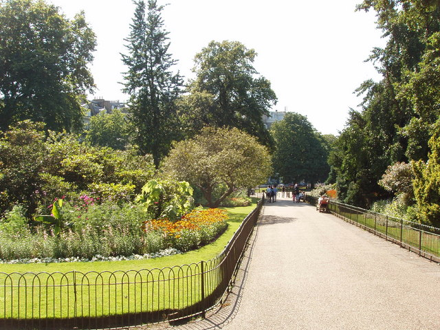 The Flower Walk, Kensington Gardens A sheltered walk with formal planting. View towards the Broad Walk.